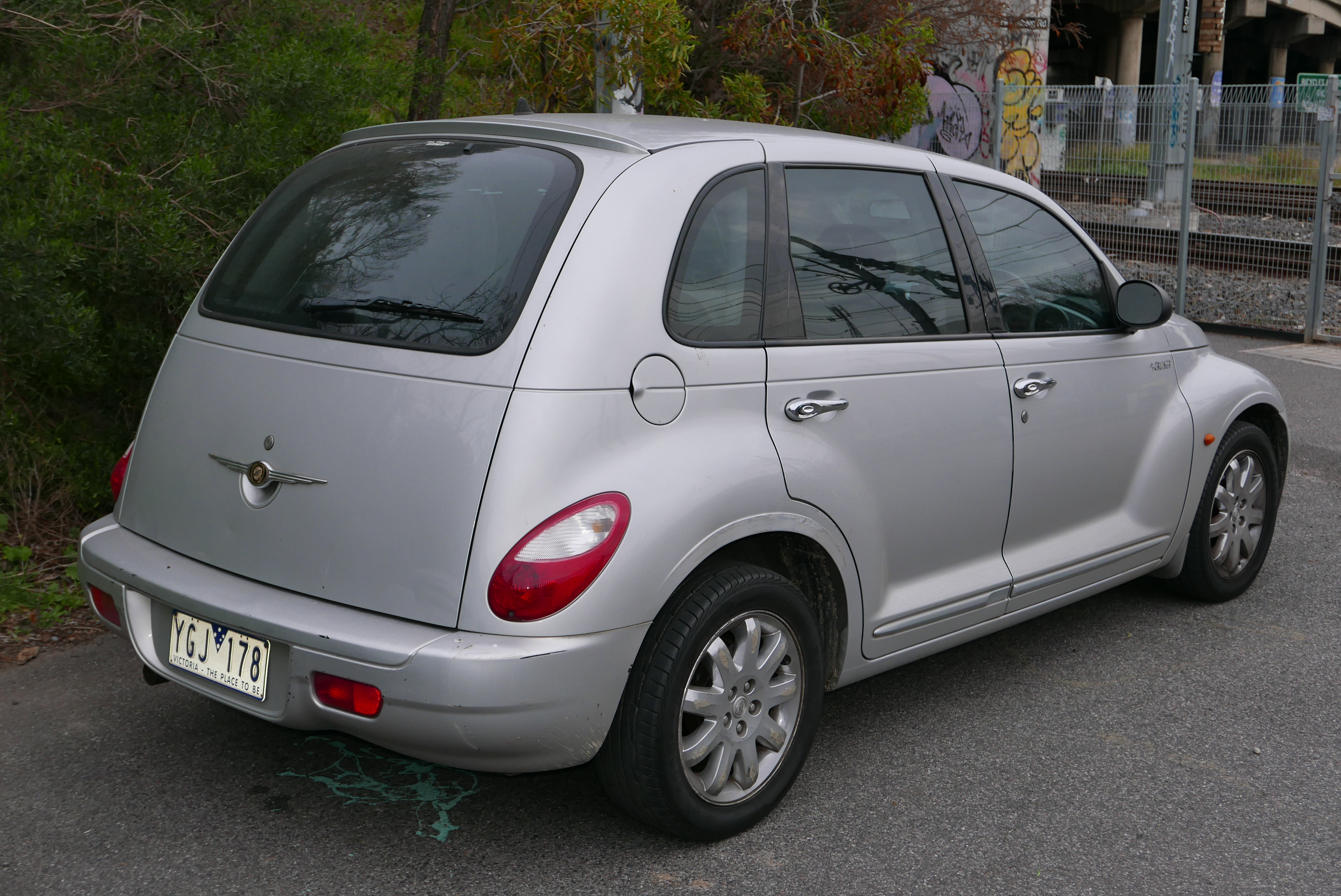 2006 Chrysler PT Cruiser (PG MY06) Limited hatchback. Photographed in Clifton Hill, Victoria, Australia. Vehicle registration enquiry resultsJurisdictionVictoriaRegistrationYGJ178Chassis code1A8F4B8B66T236104Engine code6T236104Compliance date2006-03Year of manufacture2006